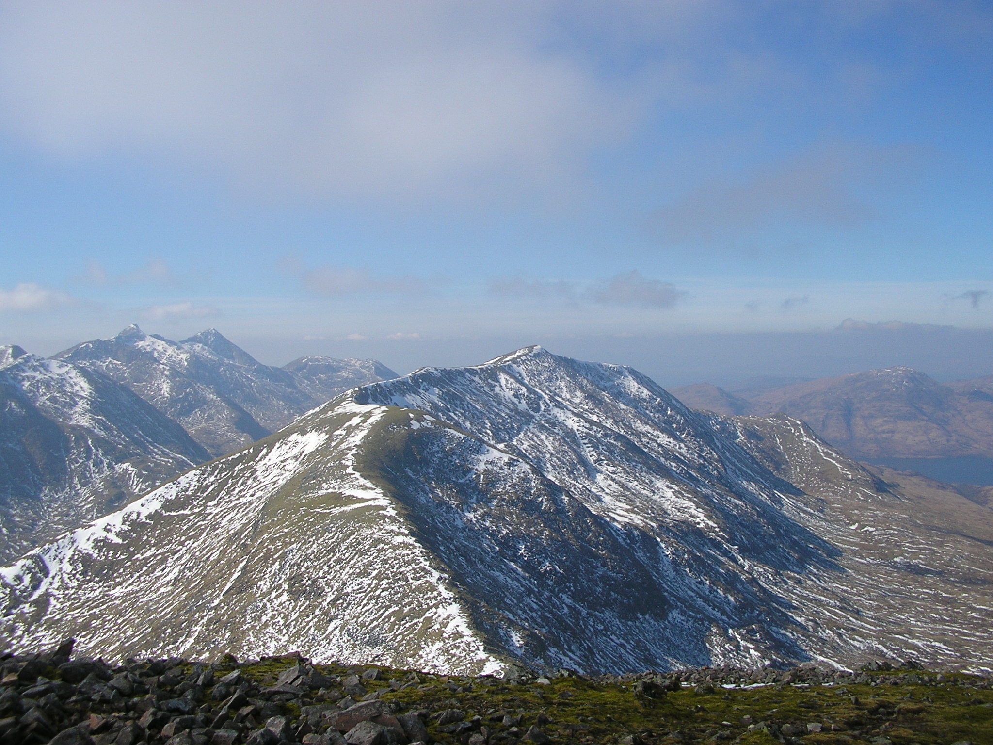 Seen from the summit of Beinn Eunaich with Ben Cruachan in the background